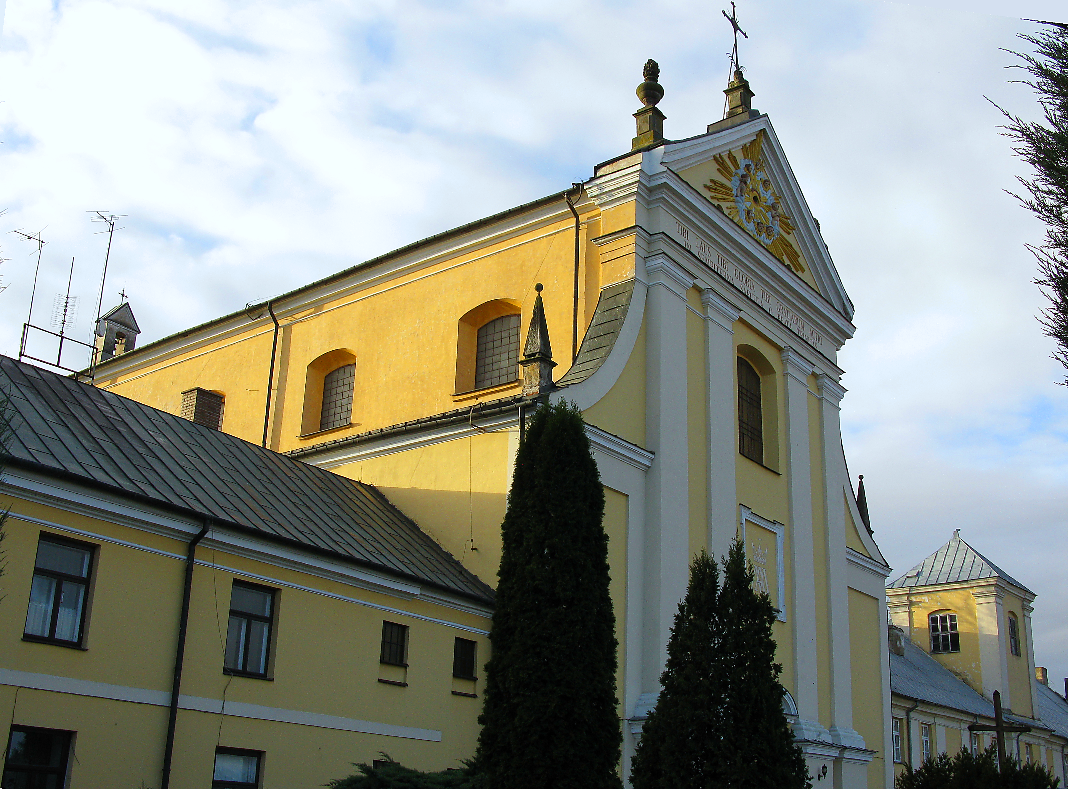 Piarists cloister in Szczuczyn, Poland